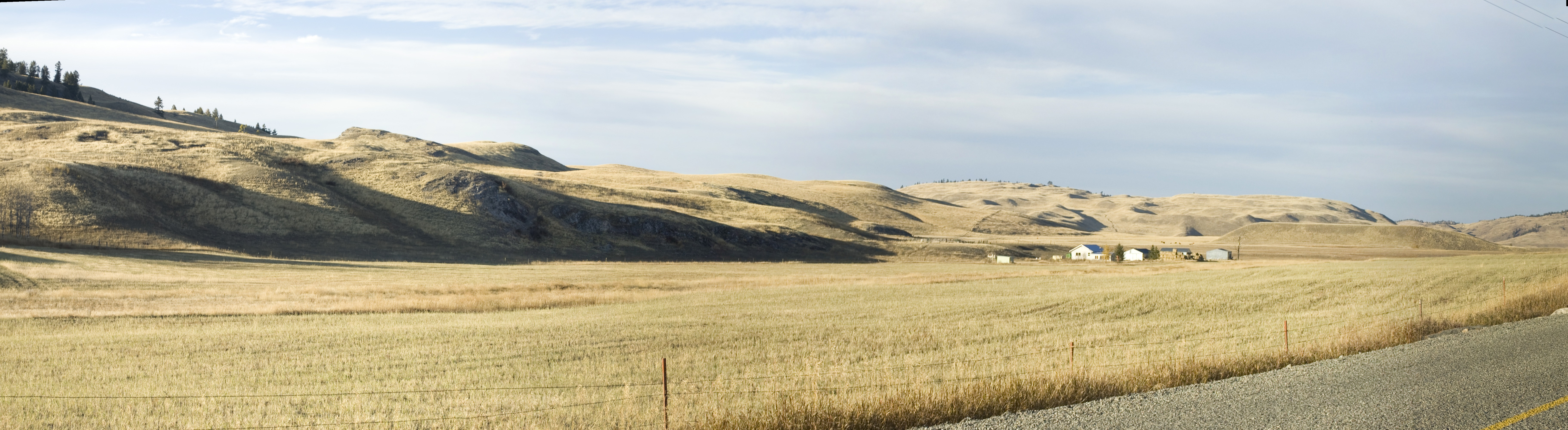 A farm near Chesaw, WA.